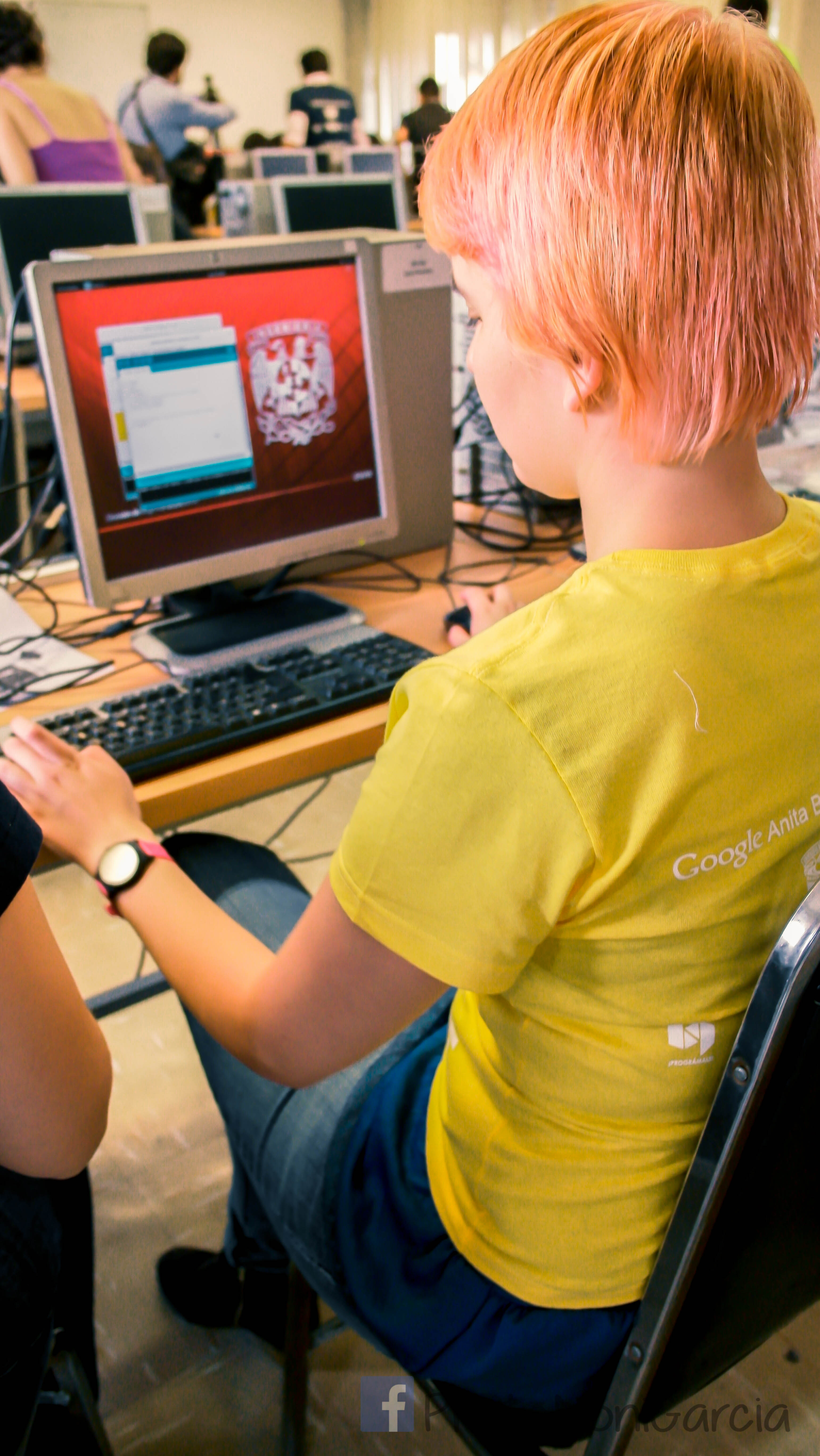 One of UNAM's Computer Engineering Hacker Students coding away.